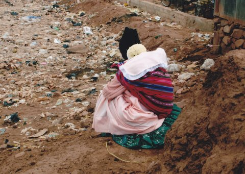 A Peruvian woman uses her dress and poncho to provide privacy while urinating